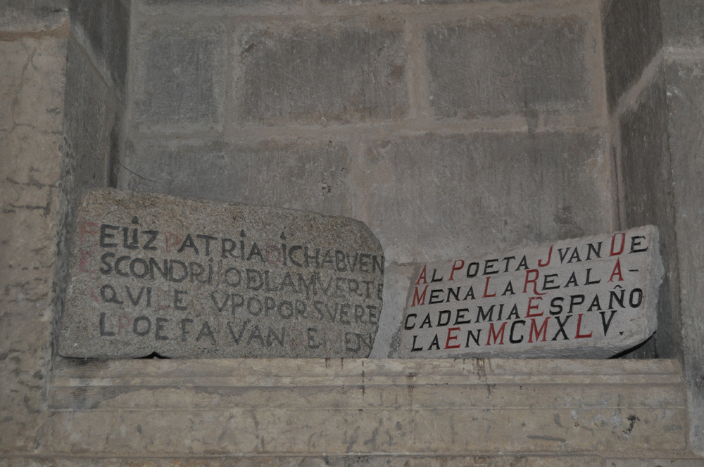 Placa homenaje al poeta Juan de Mena - Villa de Torrelaguna (Madrid) - Iglesia de Santa María Magdalena